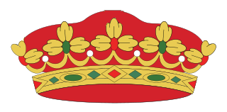 Infante's Crown (Spain)